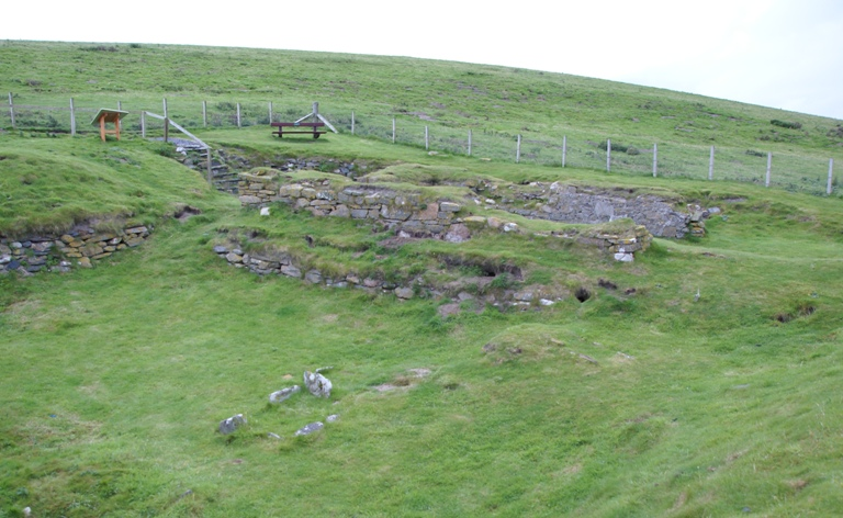 St Ninian's Chapel, St Ninian's Isle, Shetland, Scotland - graveyard